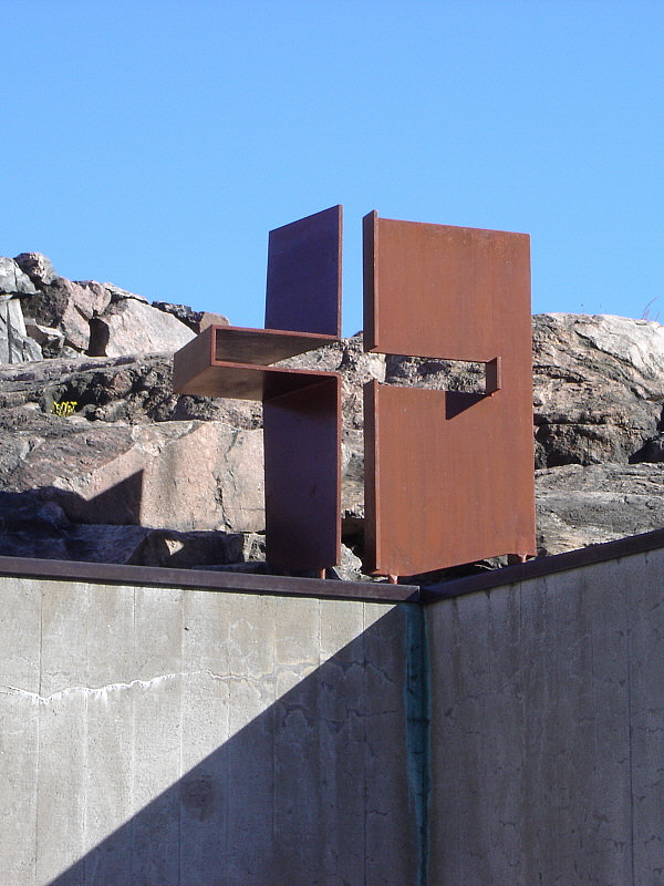 Temppeliaukio Church - Cross